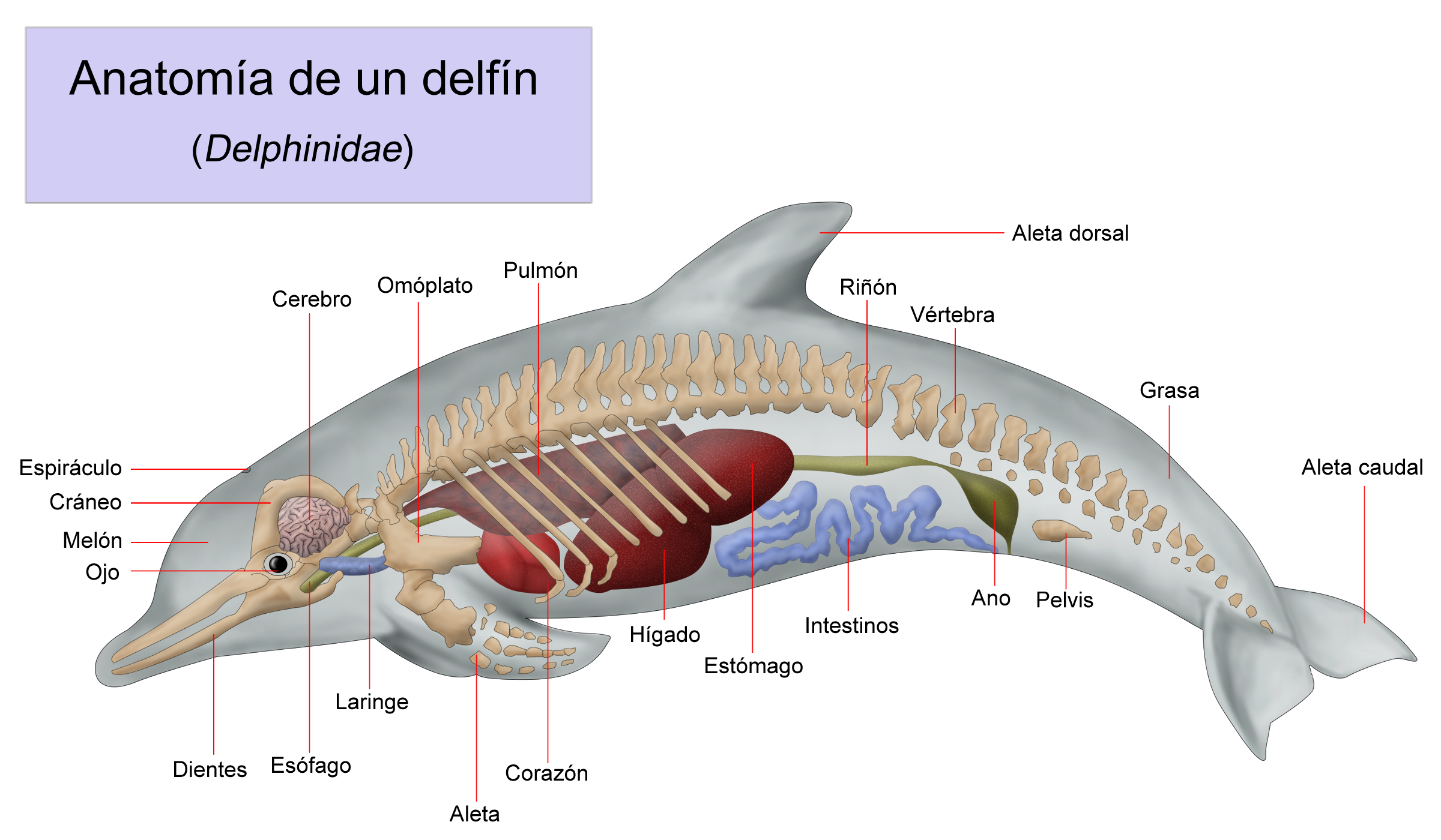 Anatomía de un delfín (Dolphin anatomy with text in Spanish)